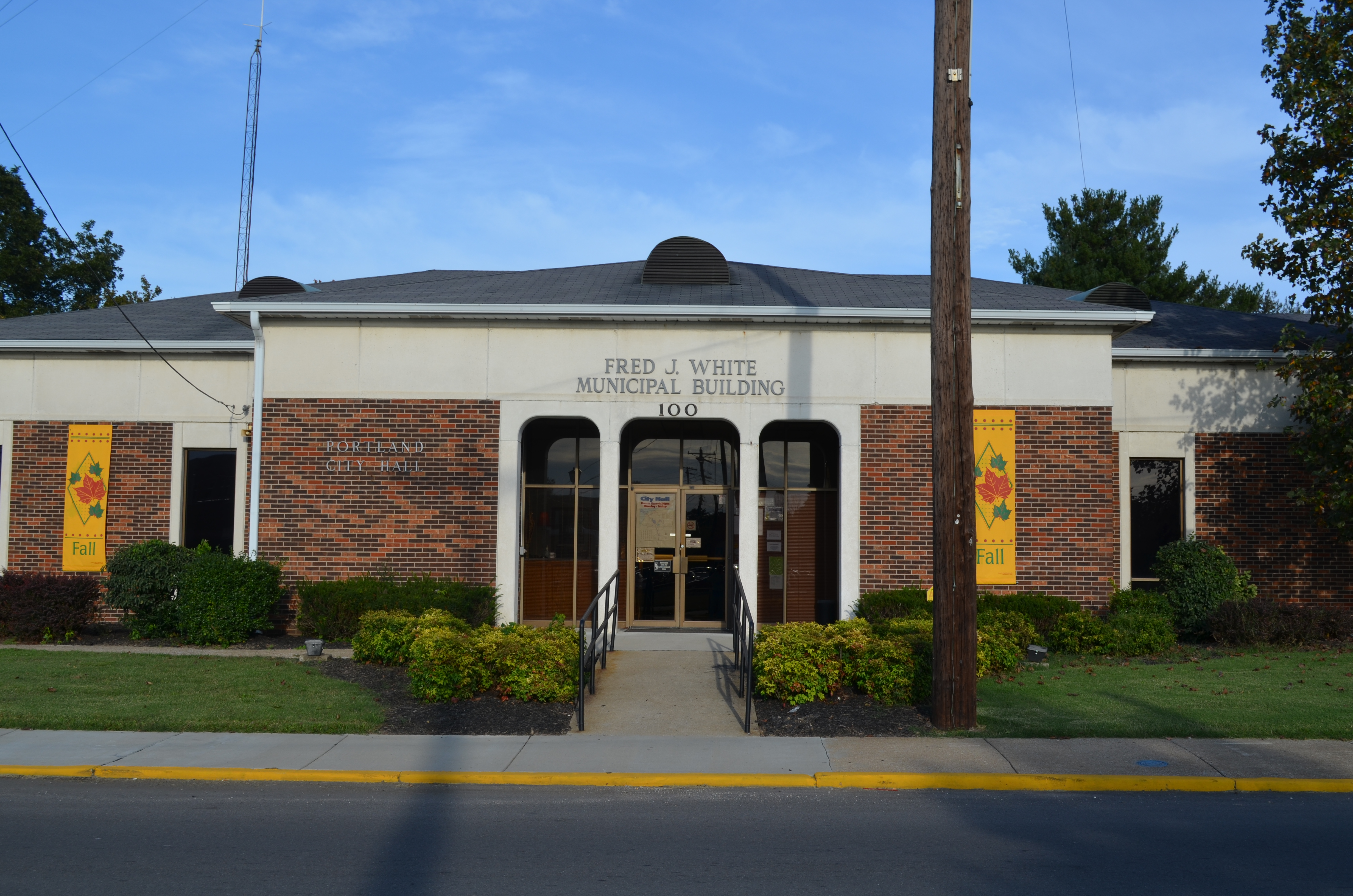 Fred J. White Municipal Building - Portland City Hall, Portland Tennessee, United States